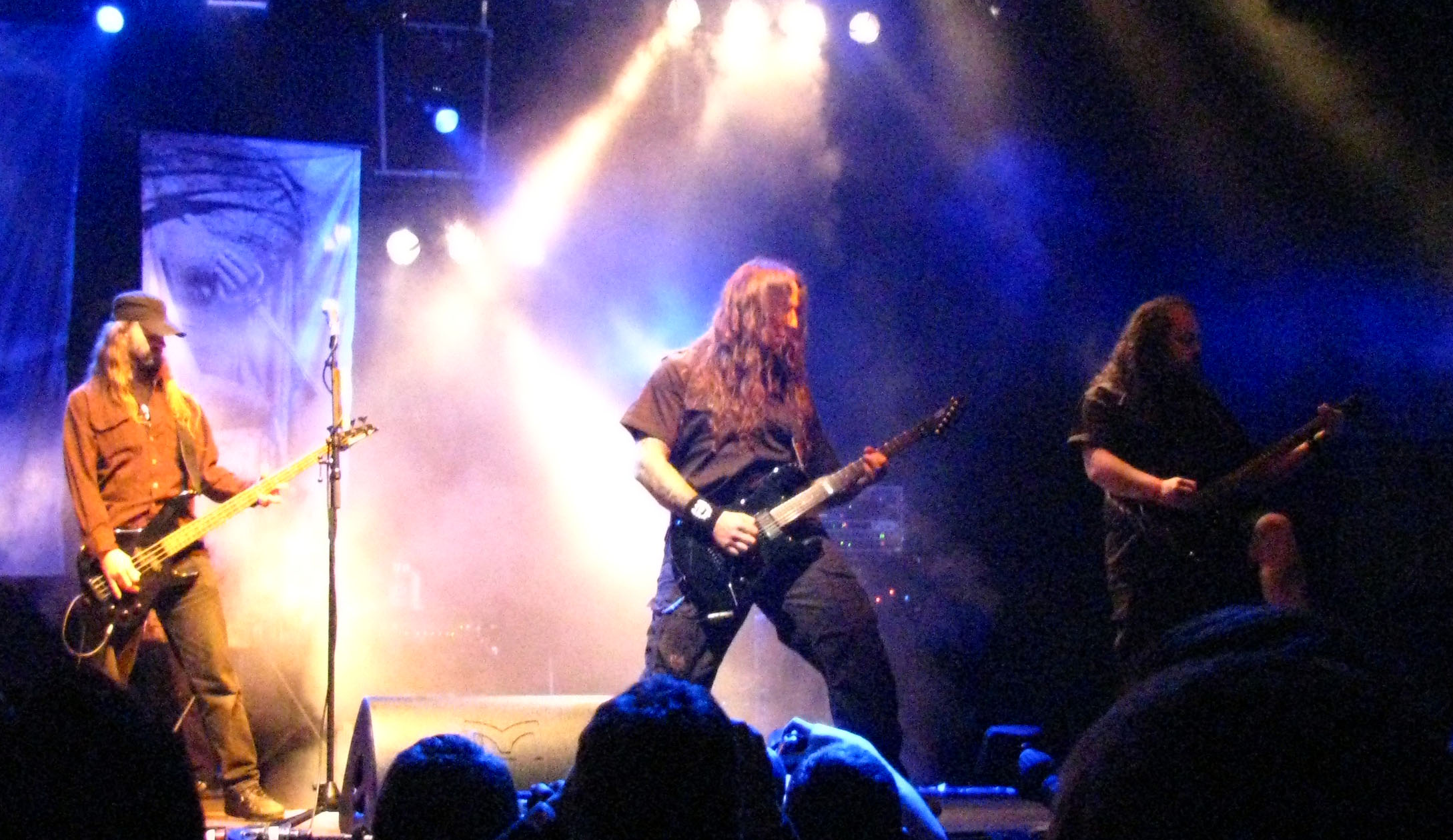 Lunatica at Rocksound-Festival 2008